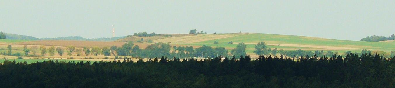 Przedgorze Sudeckie (Sudety, PL)